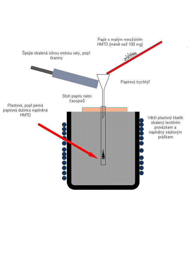 Příklad podomácku vyrobeného zařízení na plnění dutinek/rozbušek HMTD. Amatérští experimentátoři používají podobná zařízení k minimalizaci zranění při plnění rozbušek. Při plnění dutinek díky zvýšenému tření a možnosti statického (elektrického) výboje existuje vysoké riziko náhodné detonace. Náhodná detonace malých mnozštví HMTD může při přímém kontaktu s rukou vyústit v amputaci či smrt.